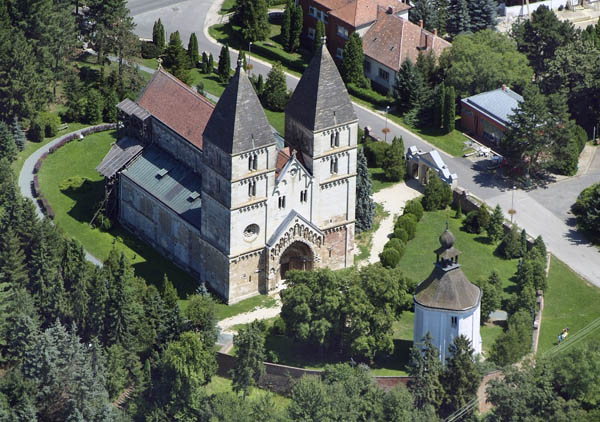 Ják, Hungary, aerial photography